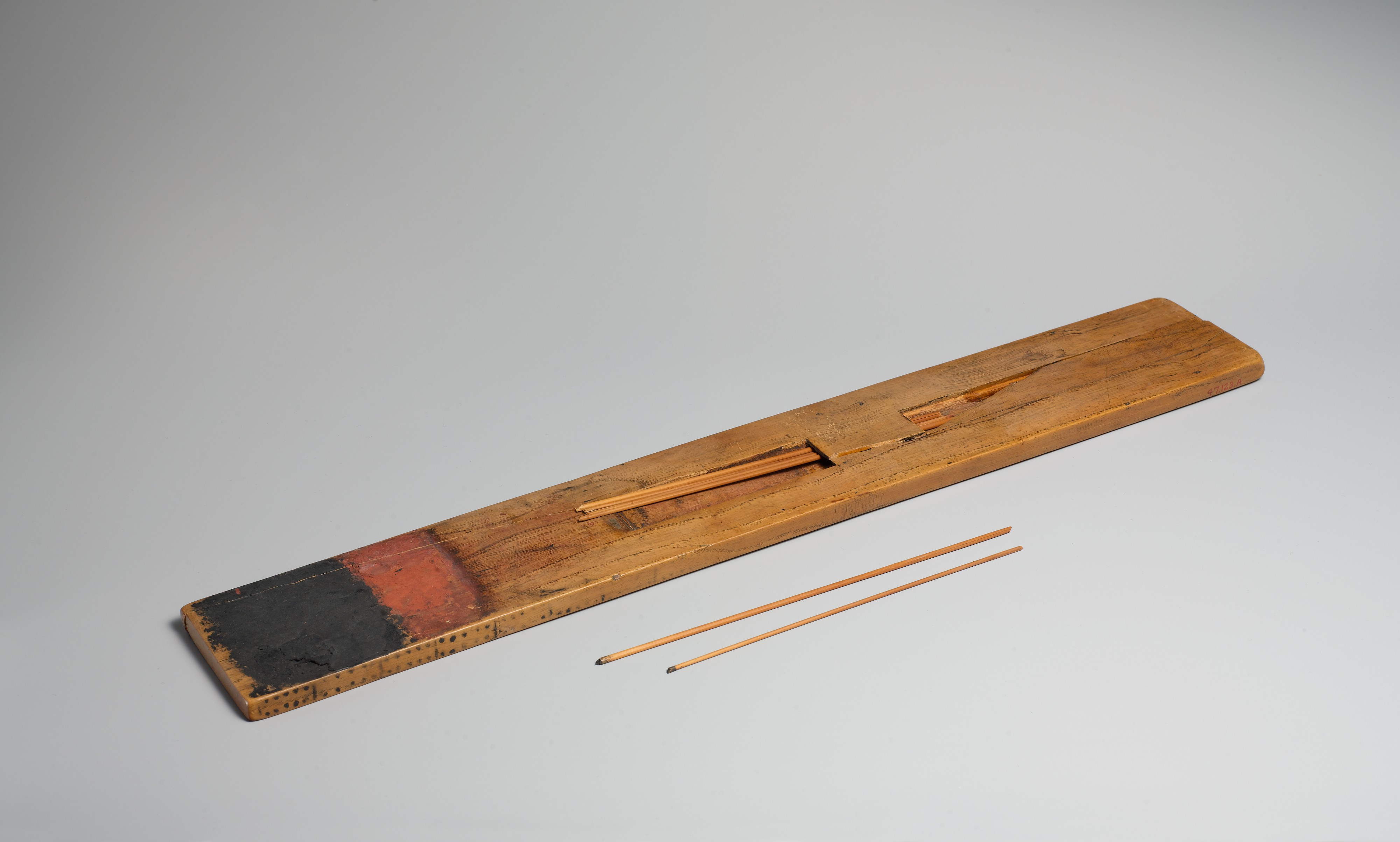 Palette inscribed for the High Priest of Amun, Smendes. It may belongs to two different persons, namely Smendes II and Smendes III, with the latter being more probable. 22nd Dynasty, Third Intermediate Period. Metropolitan Museum of Art, New York, acc. No. 47.123a–g.